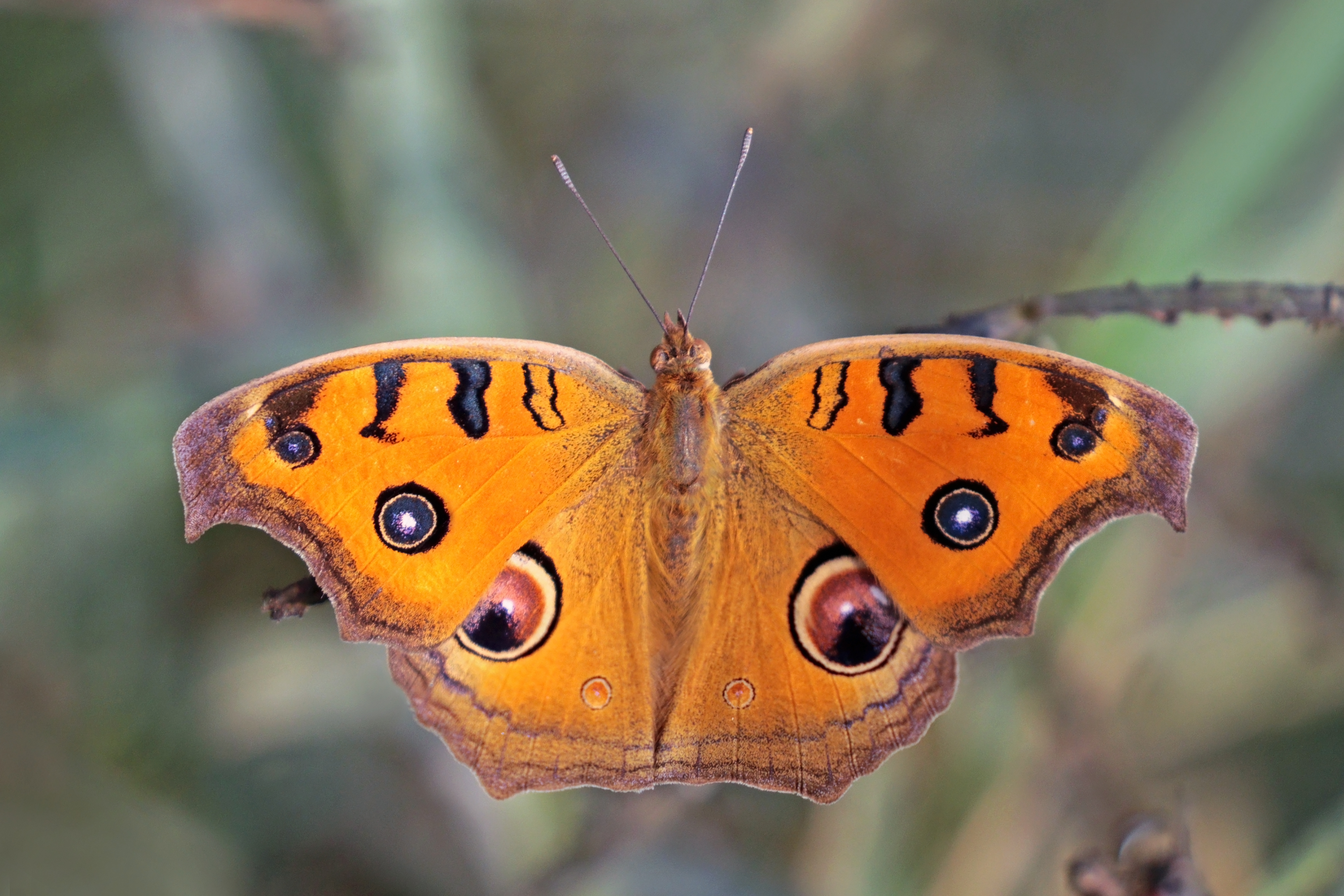 Peacock pansy (Junonia almana almana) dry season form, Nepalgunj, Nepal. This butterfly exhibits seasonal polyphenism. Throughout the year the peacock butterfly basks with its wings open – see a wet season FP from Jee. The bright orange colour and the large eyespots keep vertebrate predators away. The big change comes when it rests with its wings closed. In the wet season, when everything is green, it has bright eyespots on the underside too. But a butterfly born in the dry season need a different camoflage. There’s less food around and it must rest more. The forewings of the dry season form are fulcate (see nom) and the hindwing has a ‘tail’. There are no eyespots. It becomes an imitation of a dry leaf when it roosts upside down or enters aestivation.